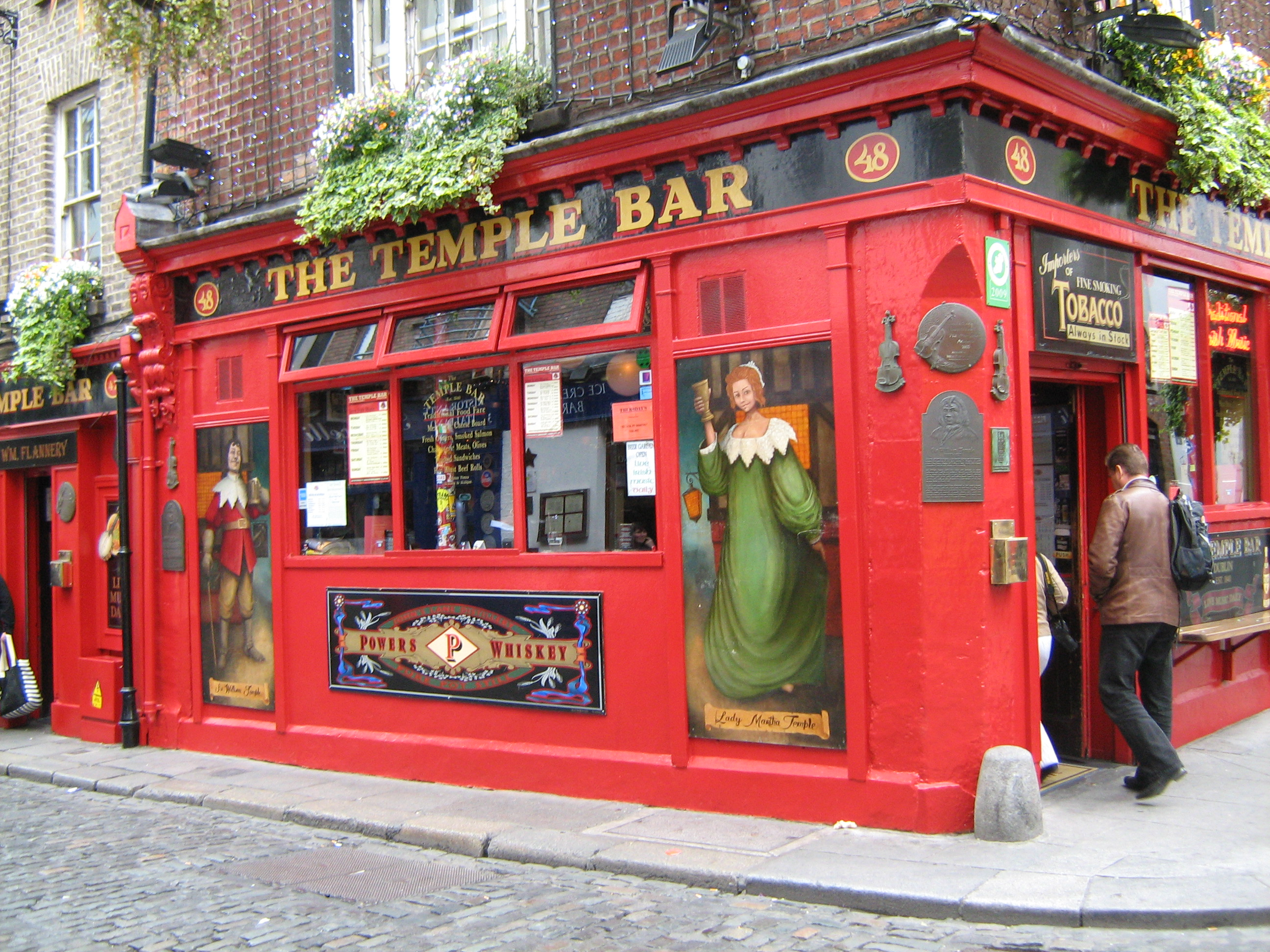 The Temple Bar, a famous pub in the Temple Bar area in Dublin, april 2011.